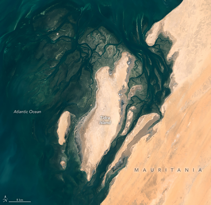 When viewed from space, the shoals, seagrass beds, and mudflats of Mauritania’s Banc d'Arguin National Park often blend with sand and sea in beautiful ways. So it was on December 28, 2019, when the Operational Land Imager (OLI) on Landsat 8 captured this natural-color image of the park’s shallow coastal waters. The mostly barren dunes on the shore drew a contrast with the maze of coastal mudflats (dark brown) and shallow seagrass beds (green) that grow beneath a few meters of water. Deeper channels (dark blue) meander and flow among the sea grass and sandy shoals. While signs of life are rare on this mostly arid land, the upwelling of cool, nutrient-rich water offshore causes the park’s coastal areas to burst with marine life. Whales, dolphins, and seals all make appearances. Thriving finfish and shellfish populations attract migratory birds to breeding sites here. Expansive tidal mudflats support upwards of 2 million shorebirds, making Banc d'Arguin one of the largest meeting places for Palaearctic birds in the world. Several endangered marine mammals occasionally turn up, notably monk seals and humpback dolphins. But Landsat does more than deliver an occasional pretty picture. Scientists have analyzed 20 years of satellite observations and found that the park’s extensive seagrass beds have remained remarkably healthy and resilient, despite weathering occasional damage from storms and dust that temporarily killed grasses in certain areas. NASA Earth Observatory image by Lauren Dauphin, using Landsat data from the U.S. Geological Survey. Caption by Adam Voiland.